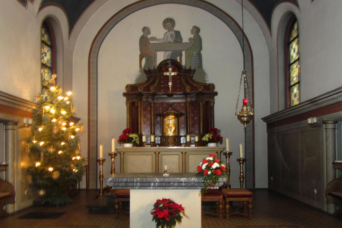 Kirche Rath-Anhoven